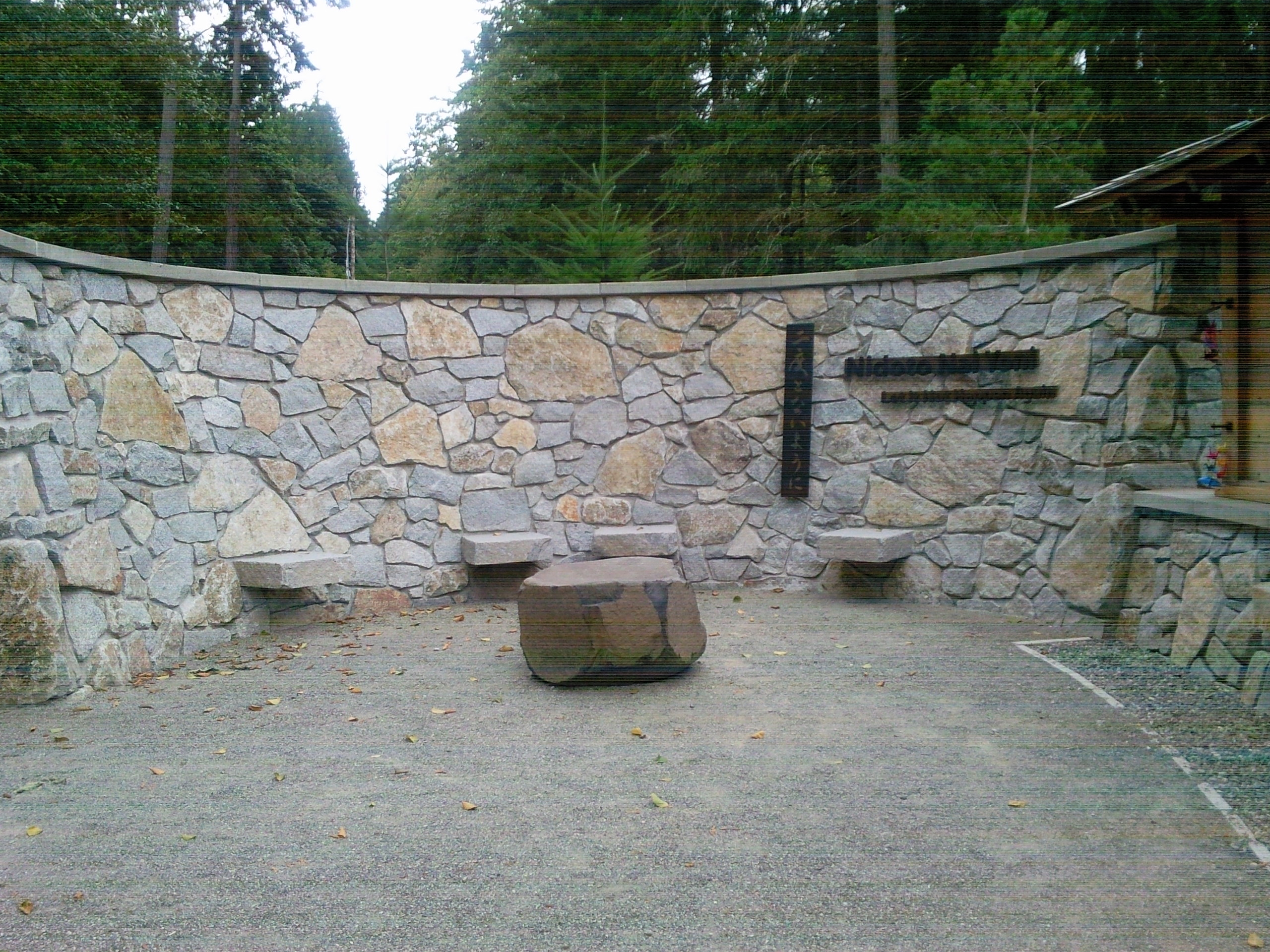 Stone wall at Bainbridge Island Japanese American Exclusion Memorial. Japanese inscription (vertical) reads "二度とないように".